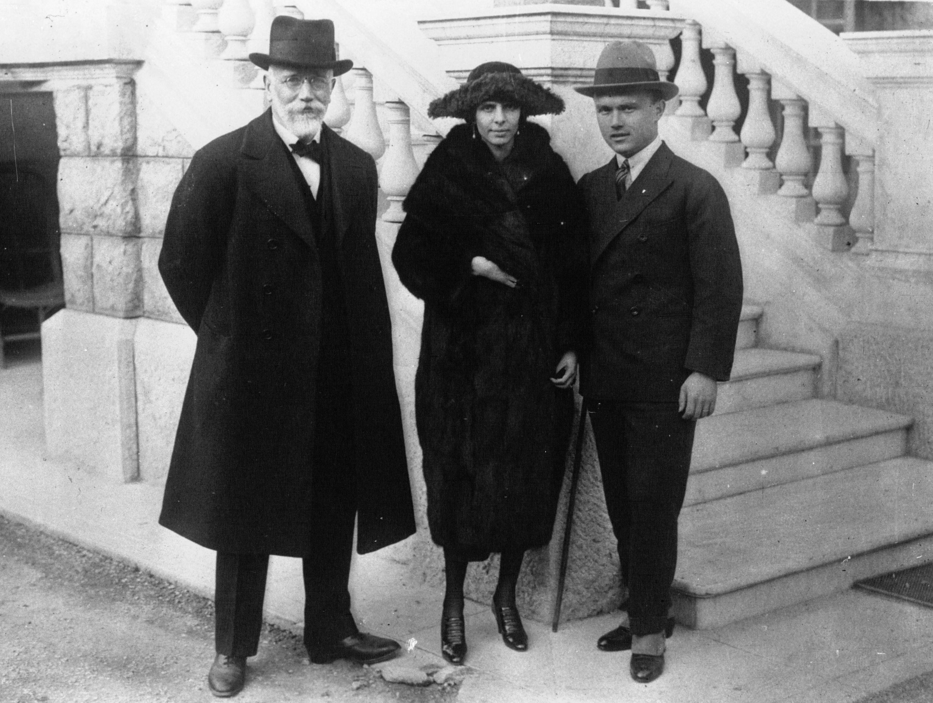 Eleftherios Venizelos with his son Sophoklis and Ms. Kathleen (Katerina) Zervudachi, Villa Xoulces, Nice, January 1921. Sophoklis Venizelos and Miss Zervudachi got married on 27 December 1920 in Nice, a few days before this picture.